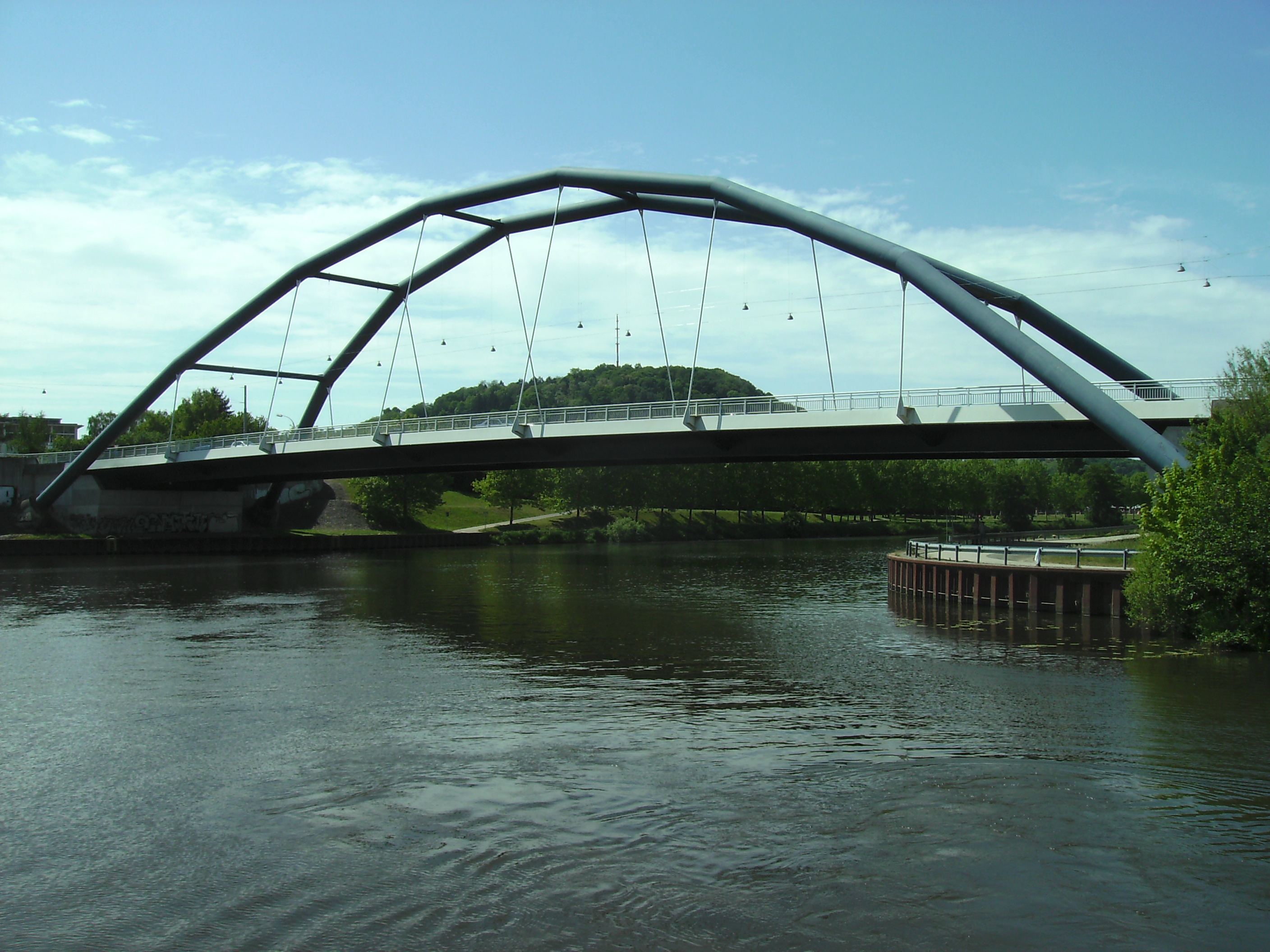 Bridge at Saarbrücken (Germany) over the Saar